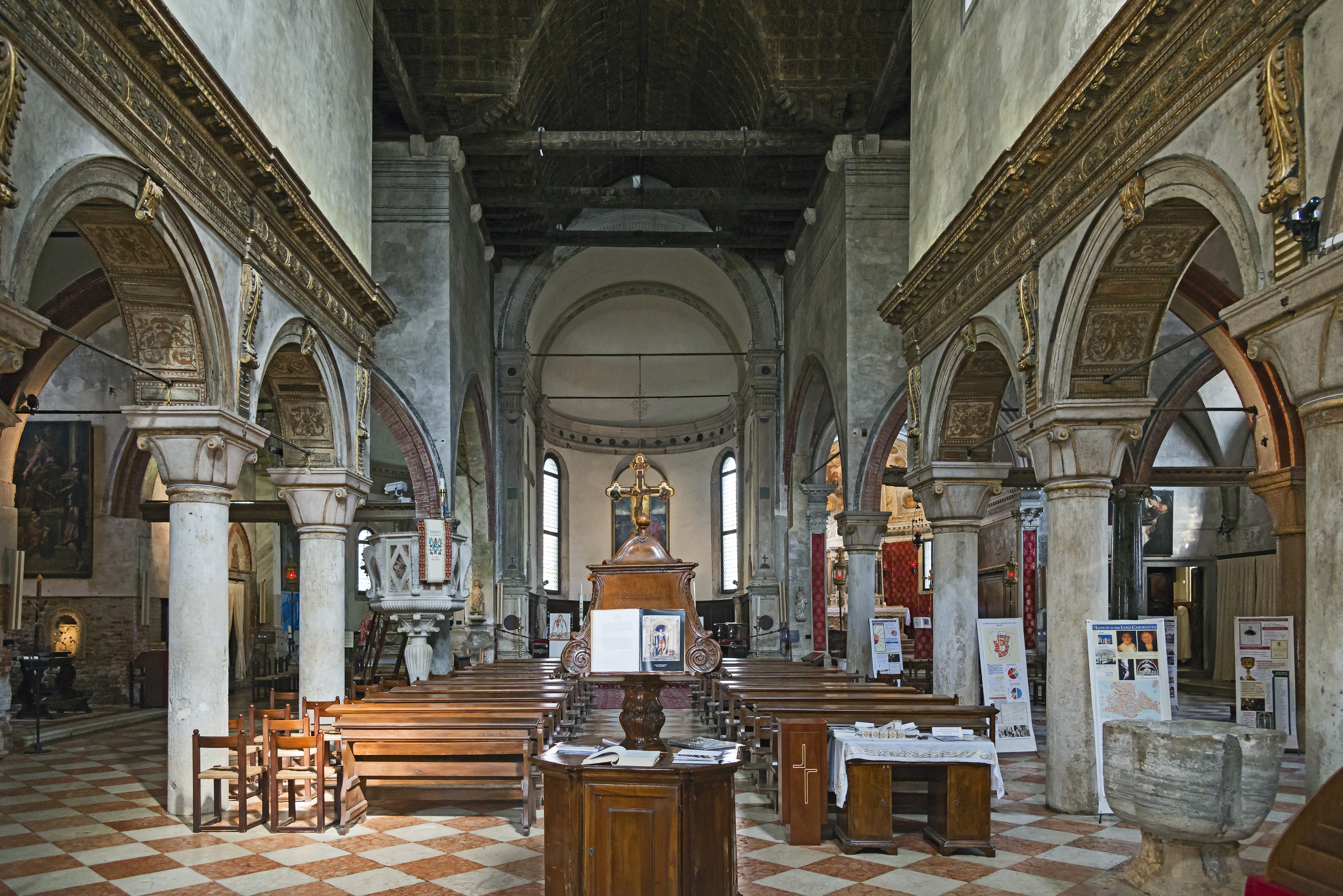 Church of San Giacomo dall'Orio (Venice) - General view of the interior of the church.